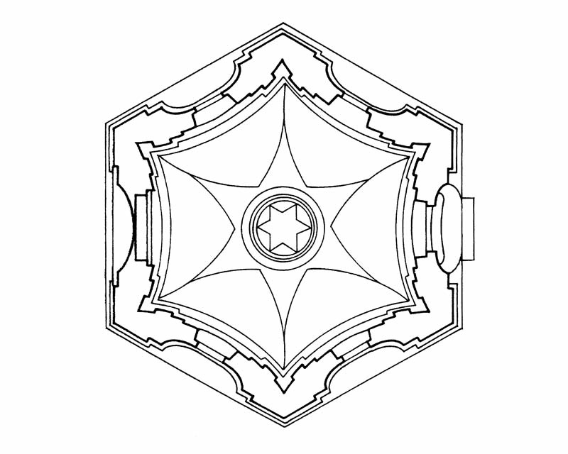 Ground plan of Chapel of Virgin Mary in Mladotice by Jan Santini Aichel